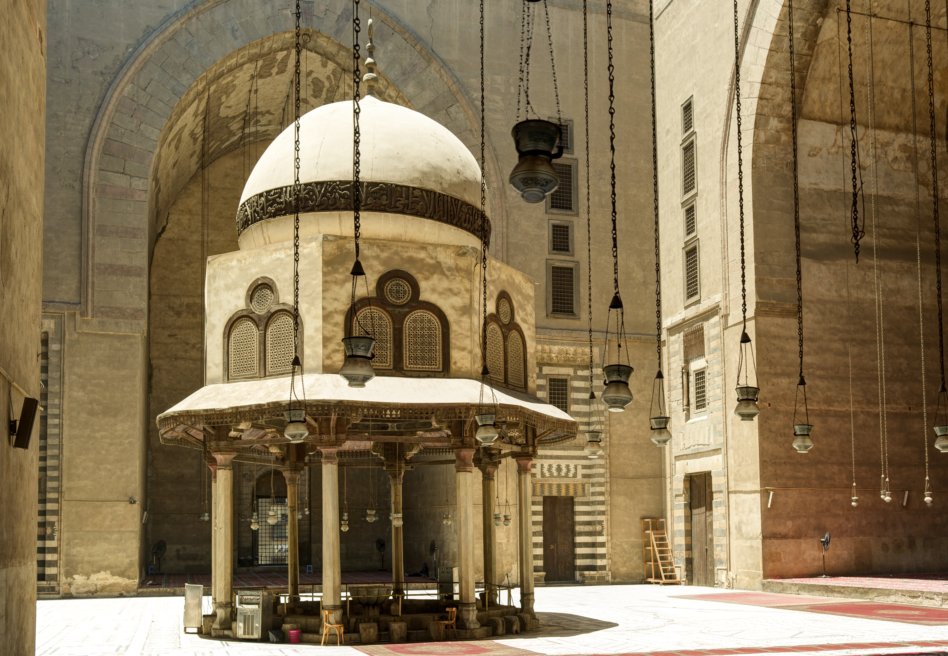 Mosque of Sultan Hasan, Cairo, Egypt.